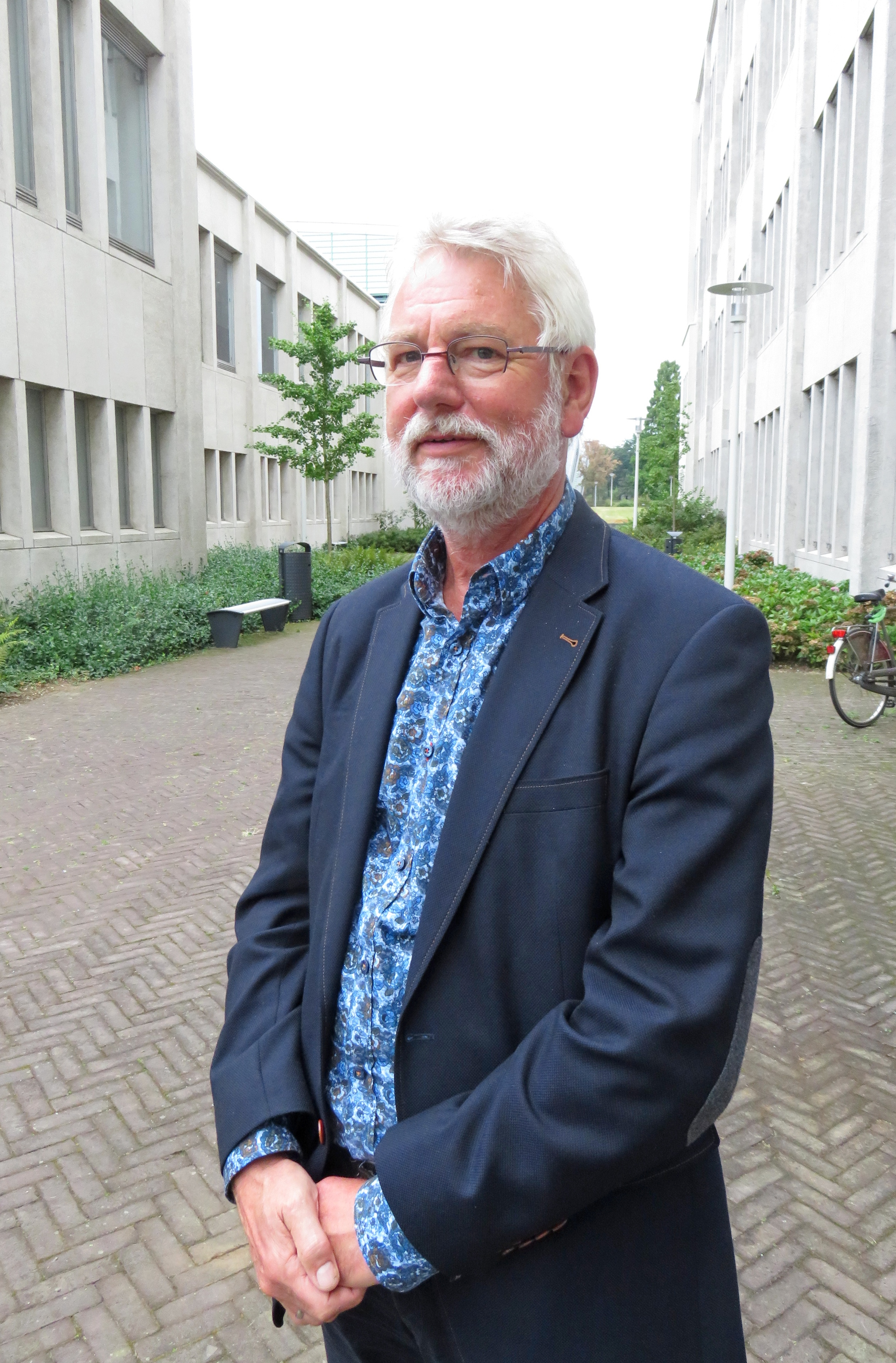 Frans Vera in Nijmegen (NL), Septembre 2016